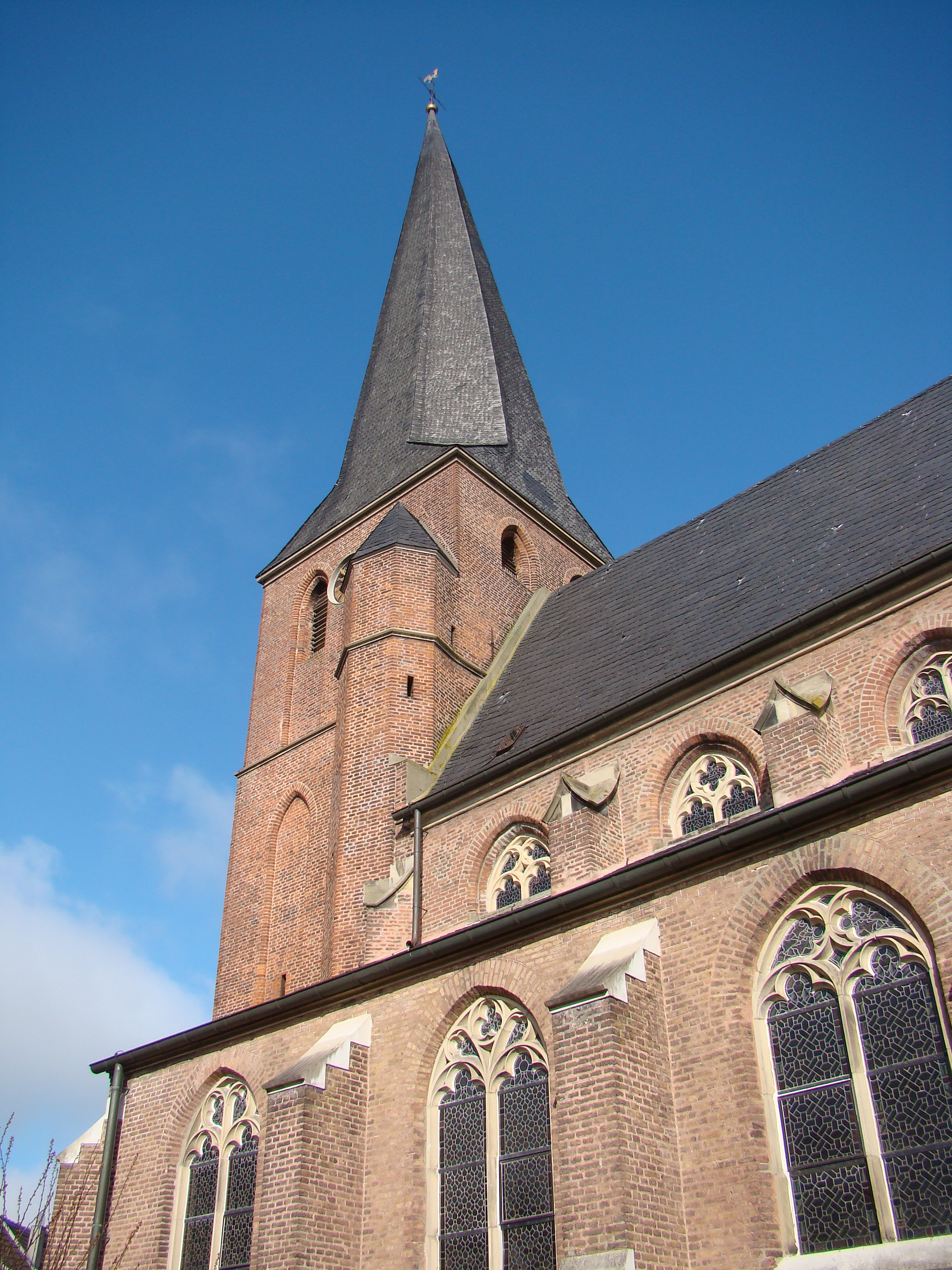 Impression of Griethausen, Germany